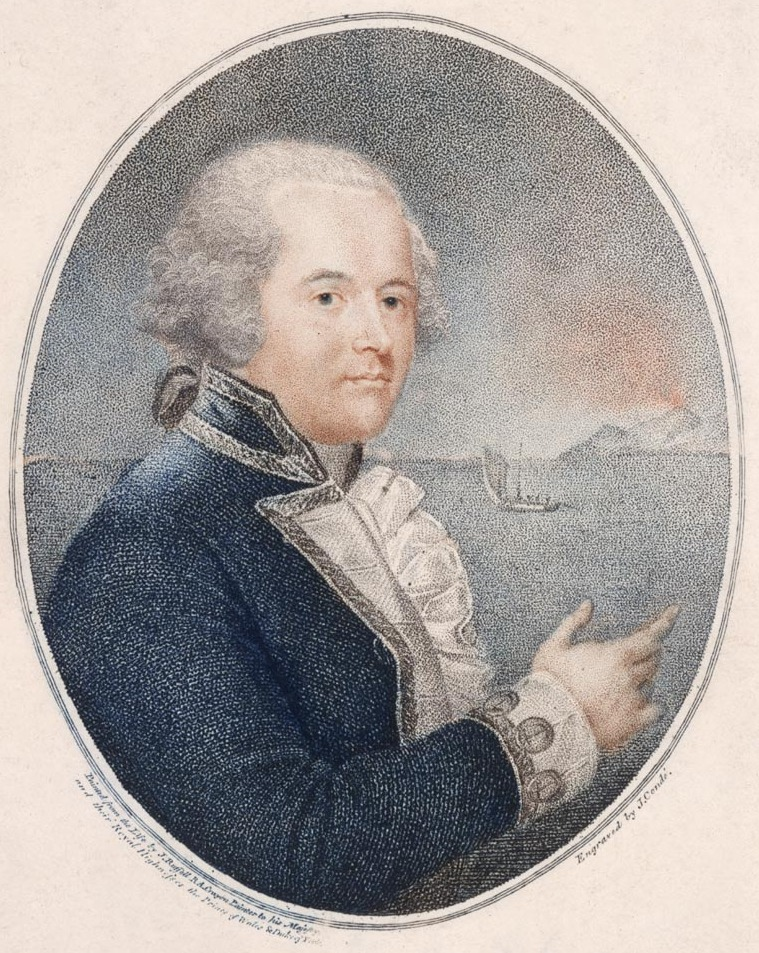 Colour portrait of William Bligh, British naval officer.